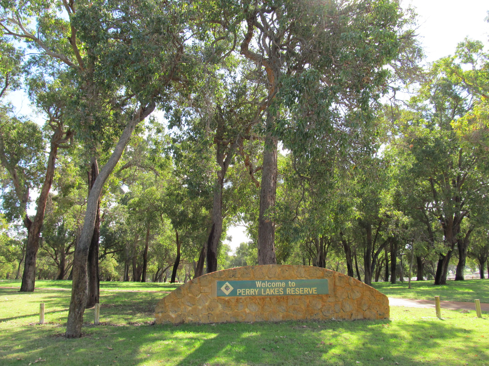 Sign on Underwood Avenue, Floreat, Perth, Australia, marking the Perry Lakes Reserve.